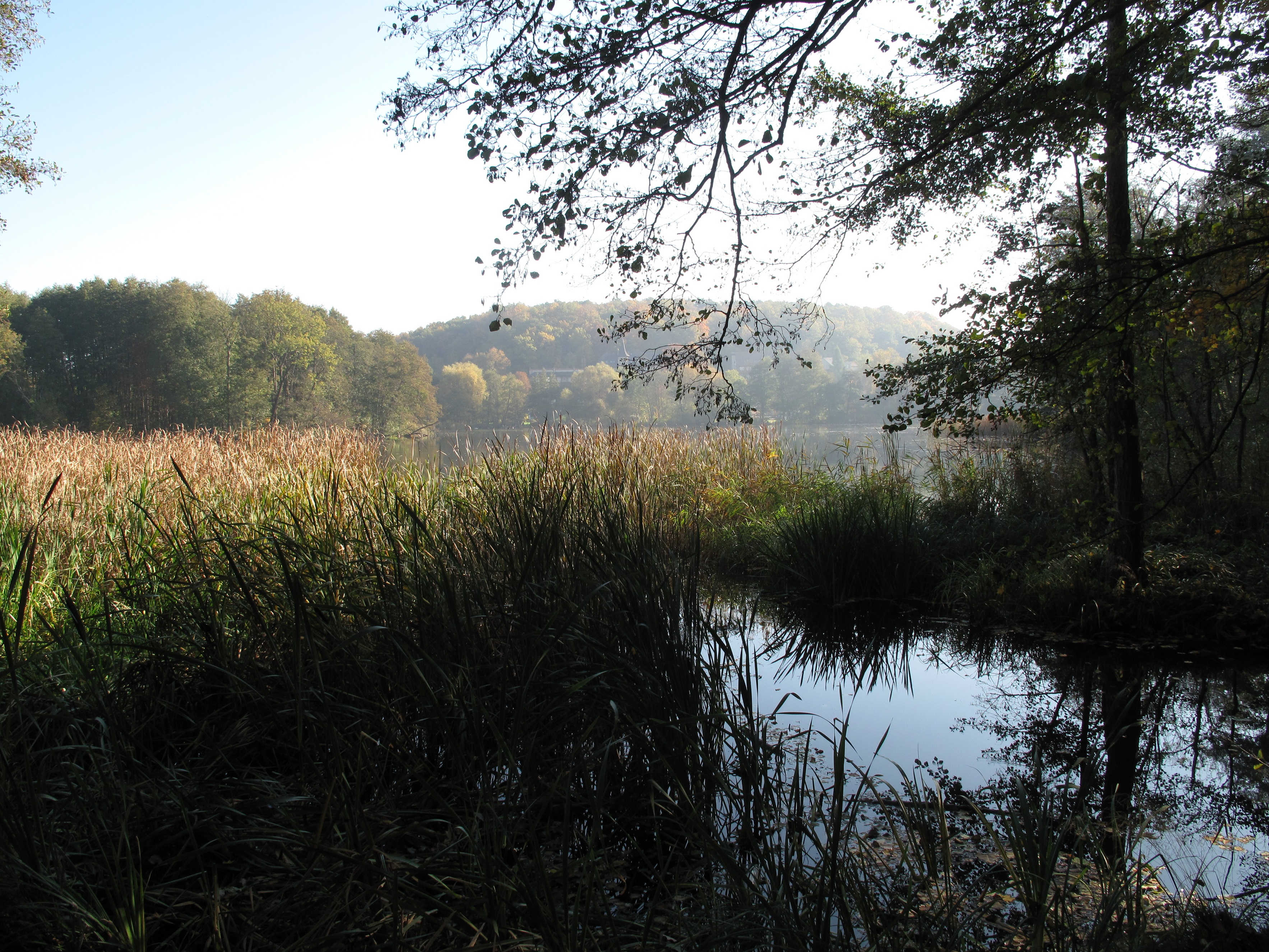 Mouth of a branch of the river Stobber into the Griepensee in the listed palace ground of Buckow, District Märkisch-Oderland, Brandenburg, Germany. The park of the 1948 demolished castle Buckow covers about 5 hectare. It was redesigned from a French formal garden into an English garden in the 19th century and reconstructed by historical plans in the 20th century.